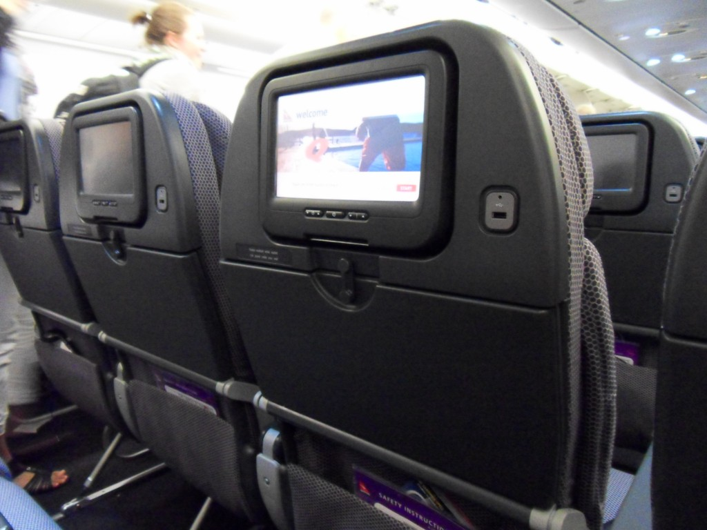 Qantas' IQ entertainment system featured on the A330-200 (VH-EBN)